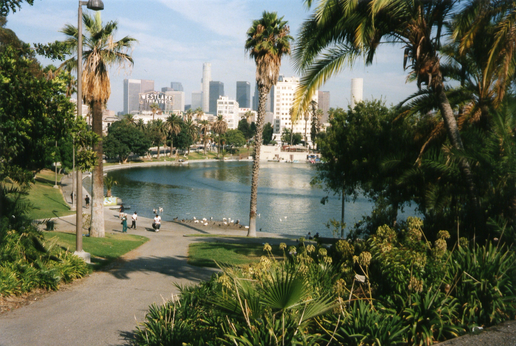 MacArthur Park, Los Angeles, California, USA. This view looks east, towards the Westlake Theatre and the downtown skyscrapers. It is not a major attraction owing to its position close to deprived areas of the city.